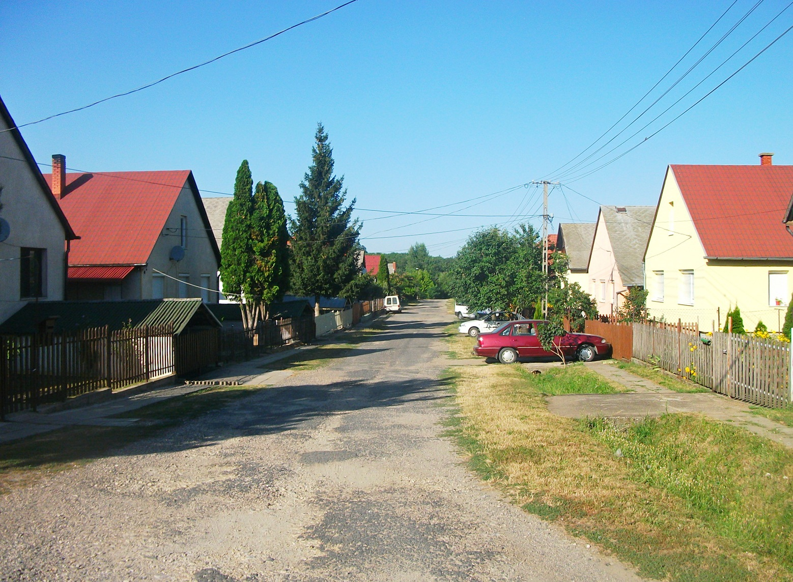 Juhász Gyula street in Zichyújfalu, Hungary